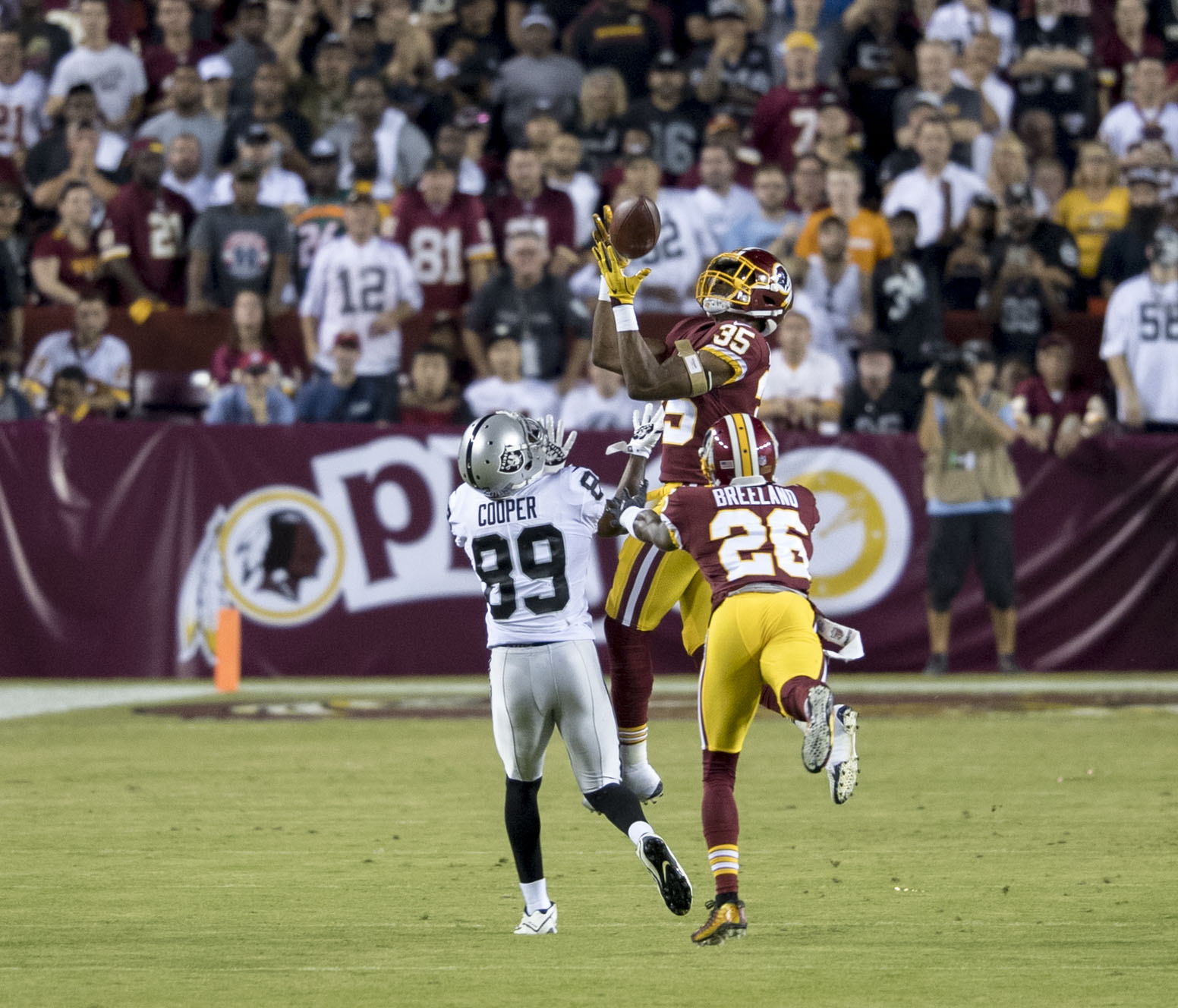 Montae Nicholson of the Washington Redskins makes an interception over Amari Cooper of the Oakland Raiders in a game at FedExField on September 24, 2017 in Landover, Maryland.